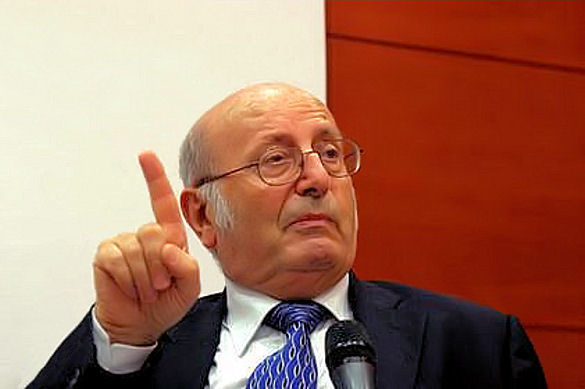 Photo of Giovanni Reale, Plato Scholar